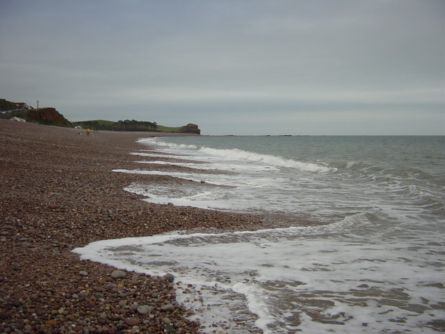 A grey day on Budleigh Beach